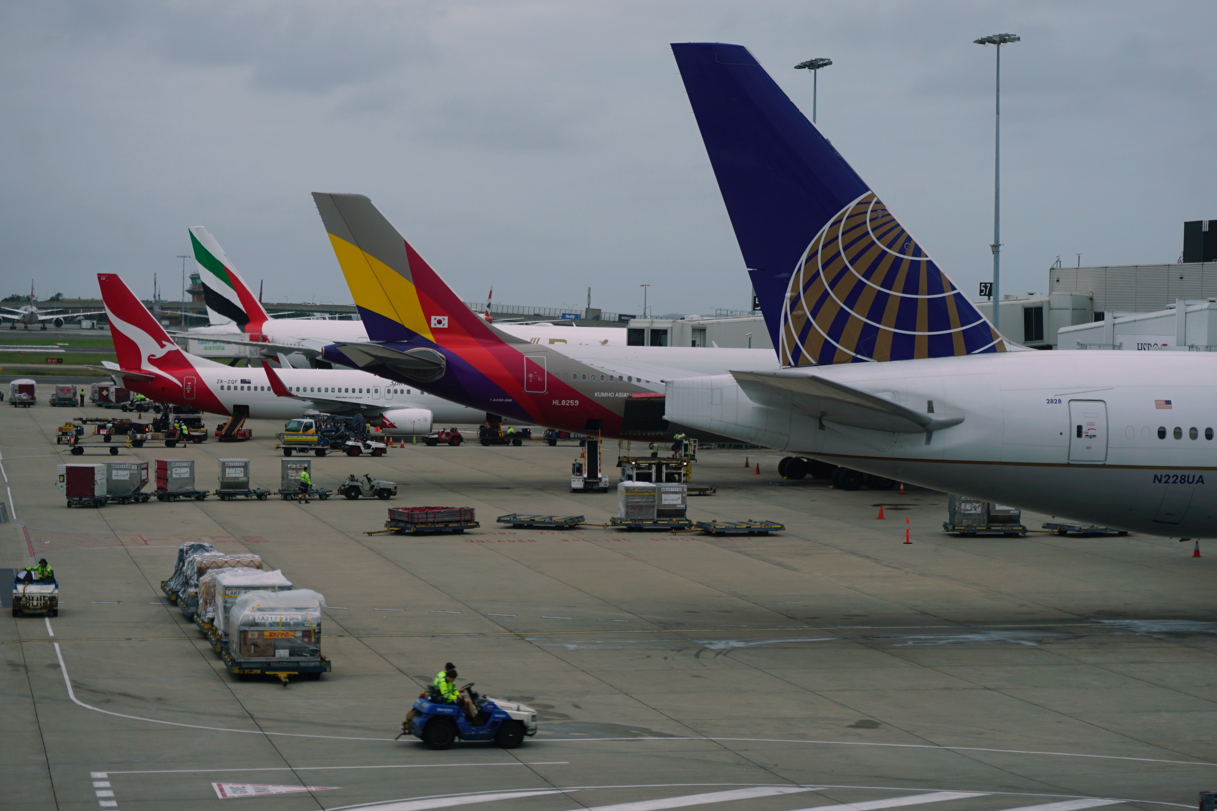 Aircraft at Sydney Airport's T1.